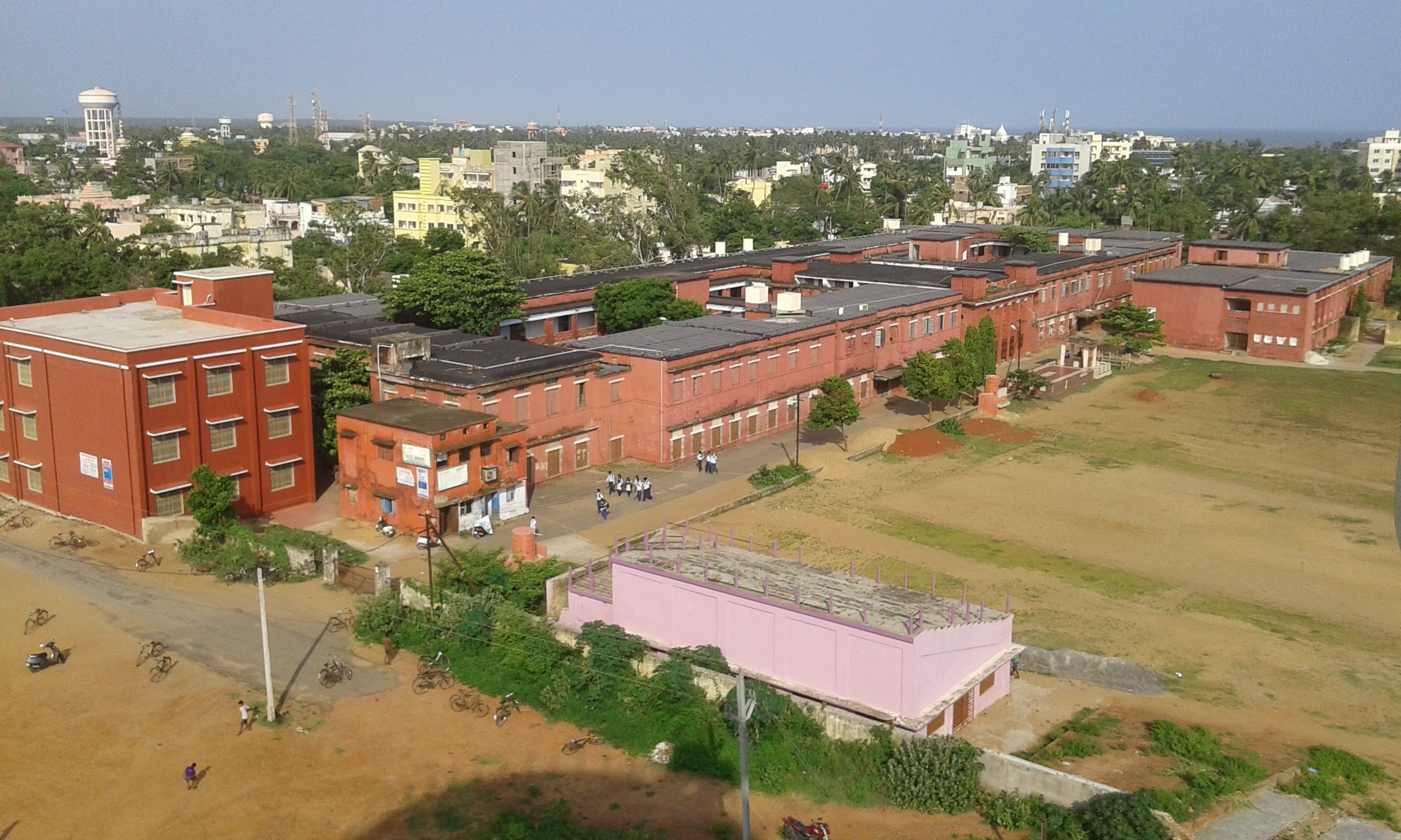 SCS College, Puri, Odisha, India. This picture was click by me from near by water tank which is situated in SCS Campus.